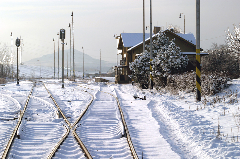 Railway-station in Čížkovice